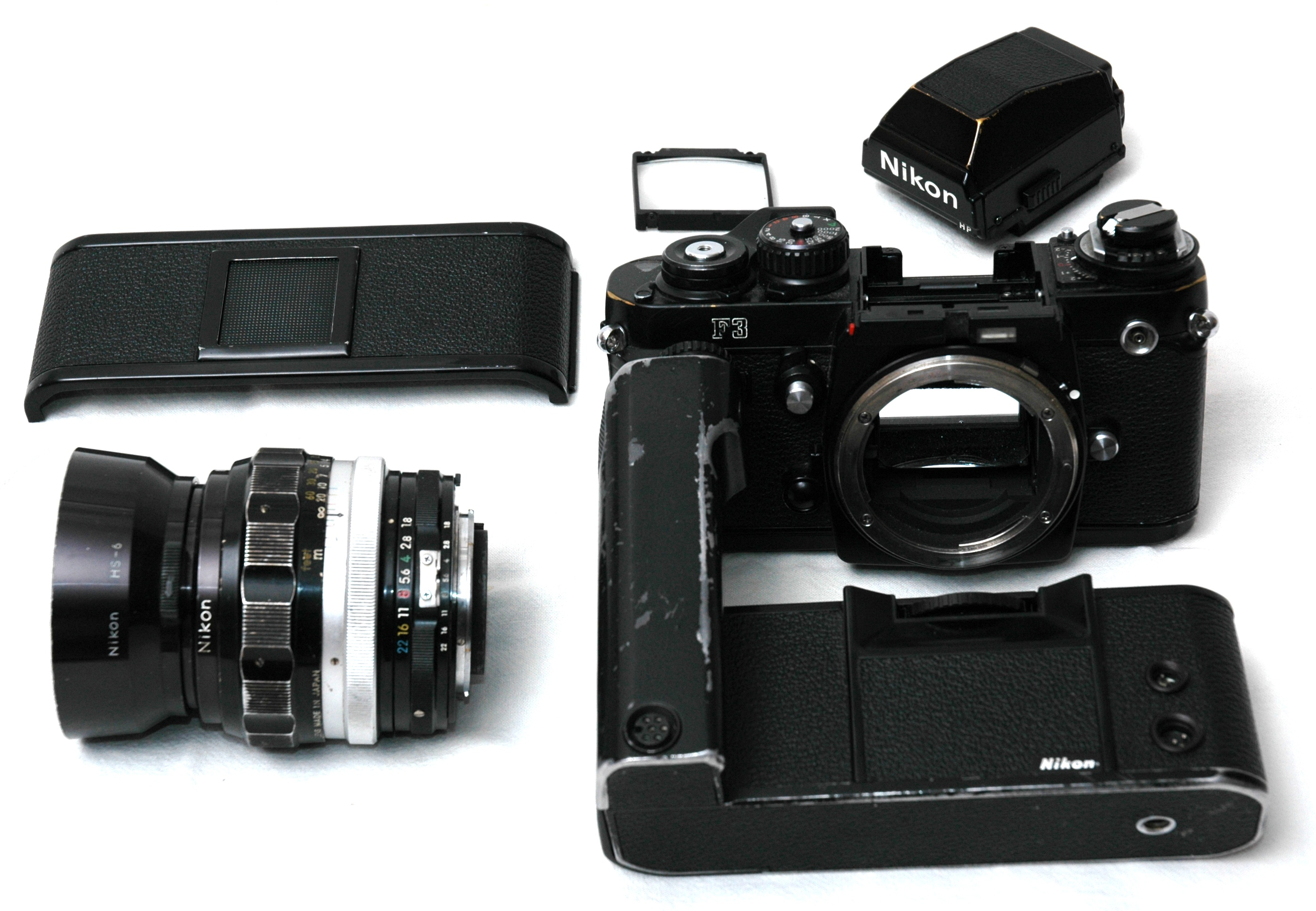 System camera (Nikon F3) in it's pieces.